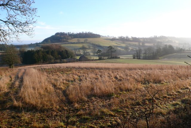 Countryside near Minterne Magna View across the valley where the A352 passes north through the gap known as Dogbury Gate between High Stoy and Dogbury, which is the hill in the distance.